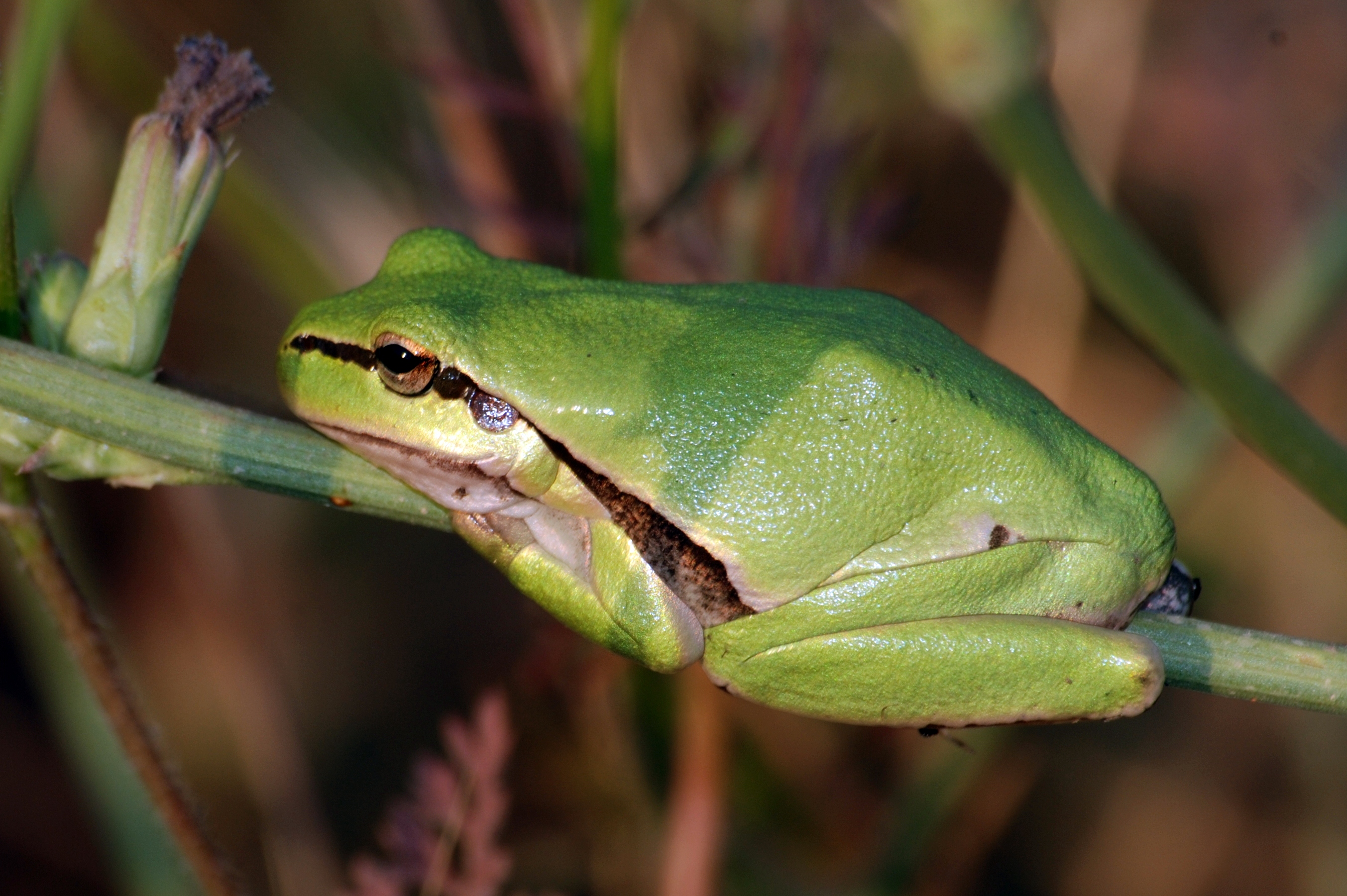 A Hyla savignyi in Bismil, Turkey Kurdî: Li Bismilê hatiye kişandin